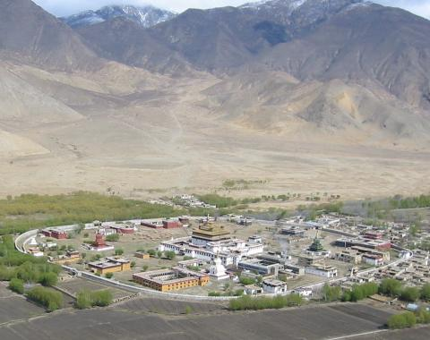 Photo by Nathan Freitas.